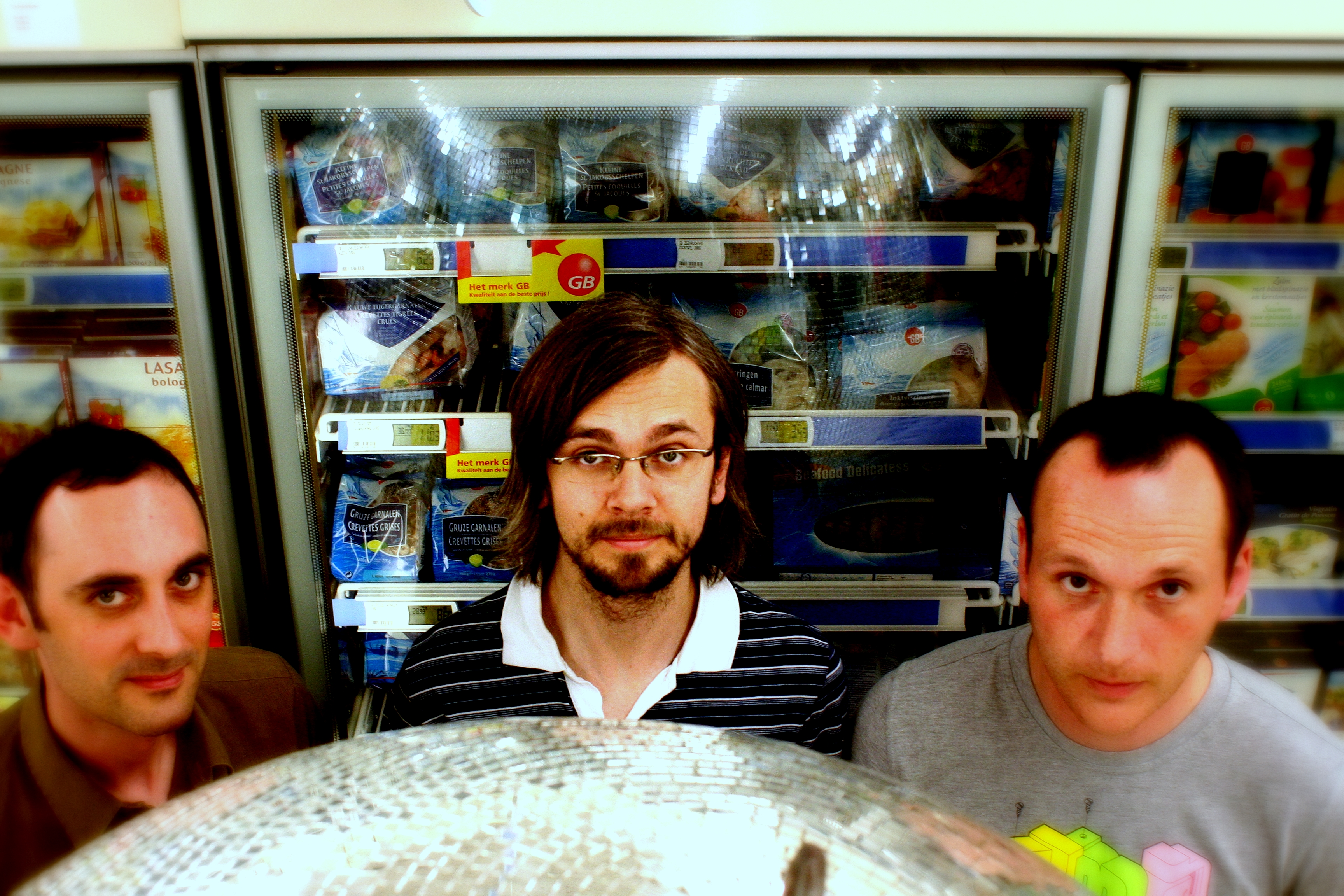 Fujiya & Miyagi at Viva Velinx 2007